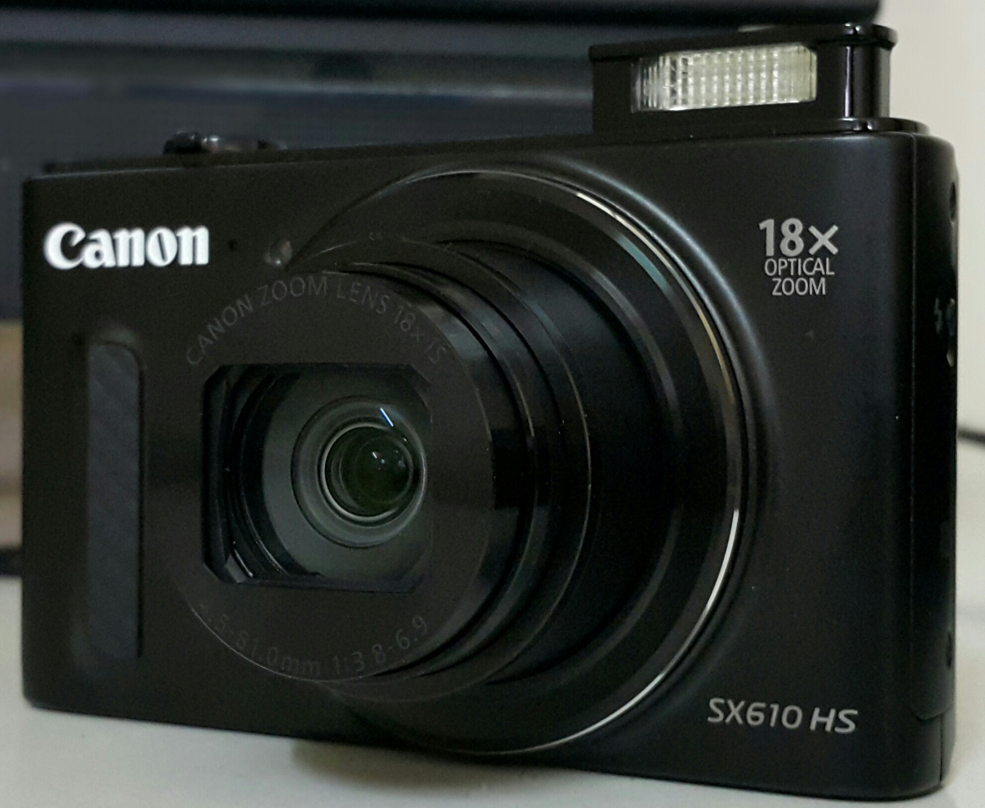 Canon PowerShot SX610 HS released in January 2015.